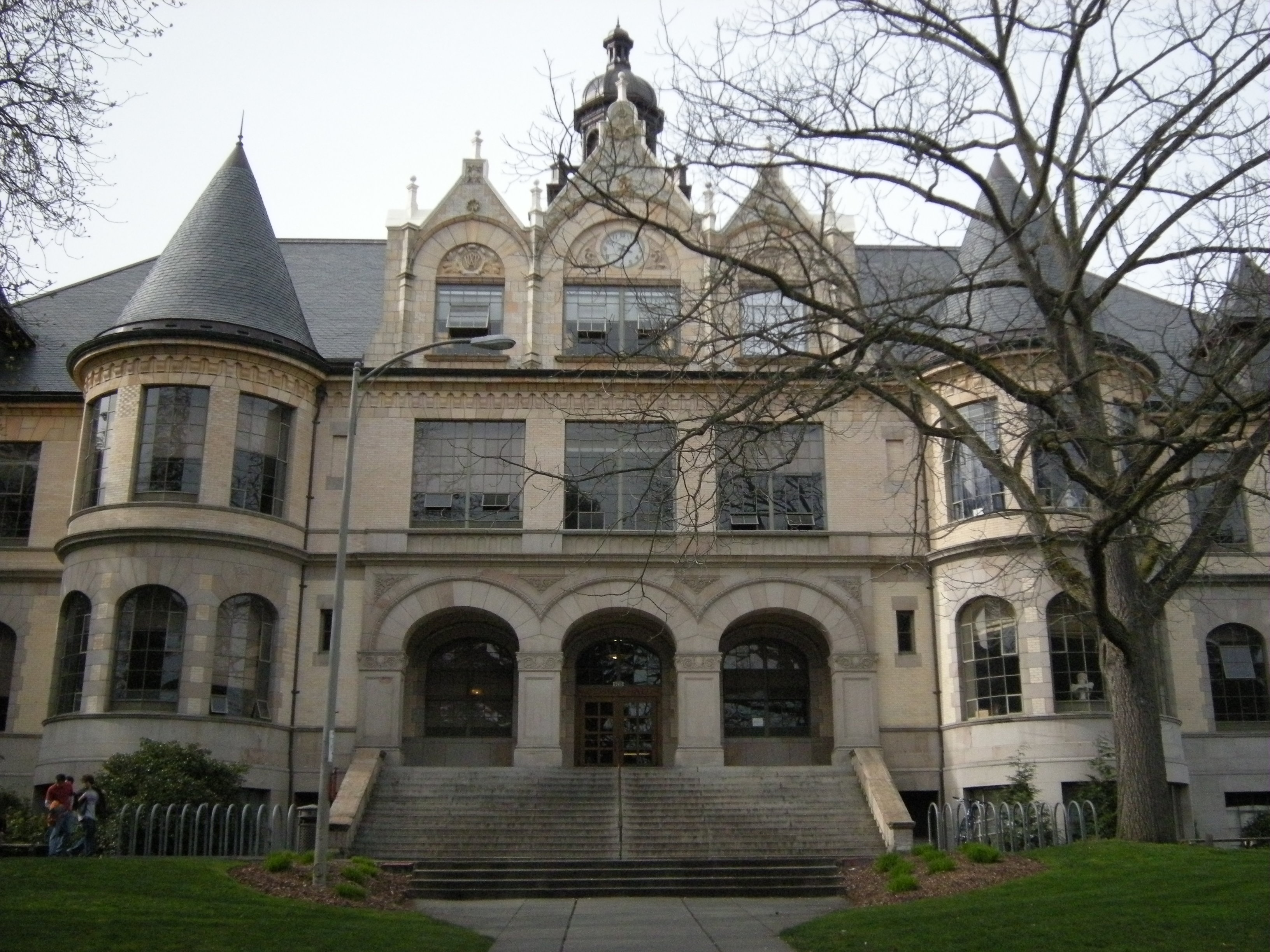 Denny Hall, University of Washington, Seattle, Washington. This 1894 (completed 1895) Richardsonian Romanesque building was the first building on the then-new campus. See Paul Dorpat, HistoryLink for more about the building, and a photo of it from when it was new.